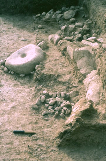 Gesher Pre-Pottery Neolithic A rounded building in Gesher (archaeological site) in Israel .